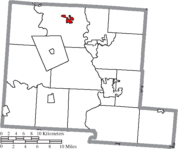 Map of the municipal and township boundaries of Pickaway County, Ohio, United States, as of the 2000 census, with the location of the village of Commercial Point highlighted. Township borders are shown only in unincorporated areas in order to differentiate incorporated and unincorporated areas more clearly.